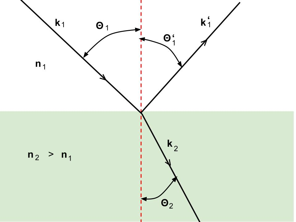 Wave numbers and angles describing reflection and refraction of light rays at interface